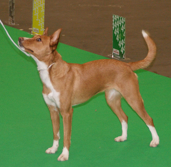 A female Portuguese Podengo, smooth-haired Medio. Colour: fawn & white.